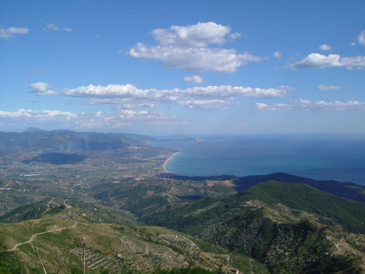 Landscape from the Monte Stella: Alento Valley and Plain, Tyrrhenian Sea, Cilentan coast, Marina di Casal Velino, Marina di Ascea, Ascea, Cape Palinuro